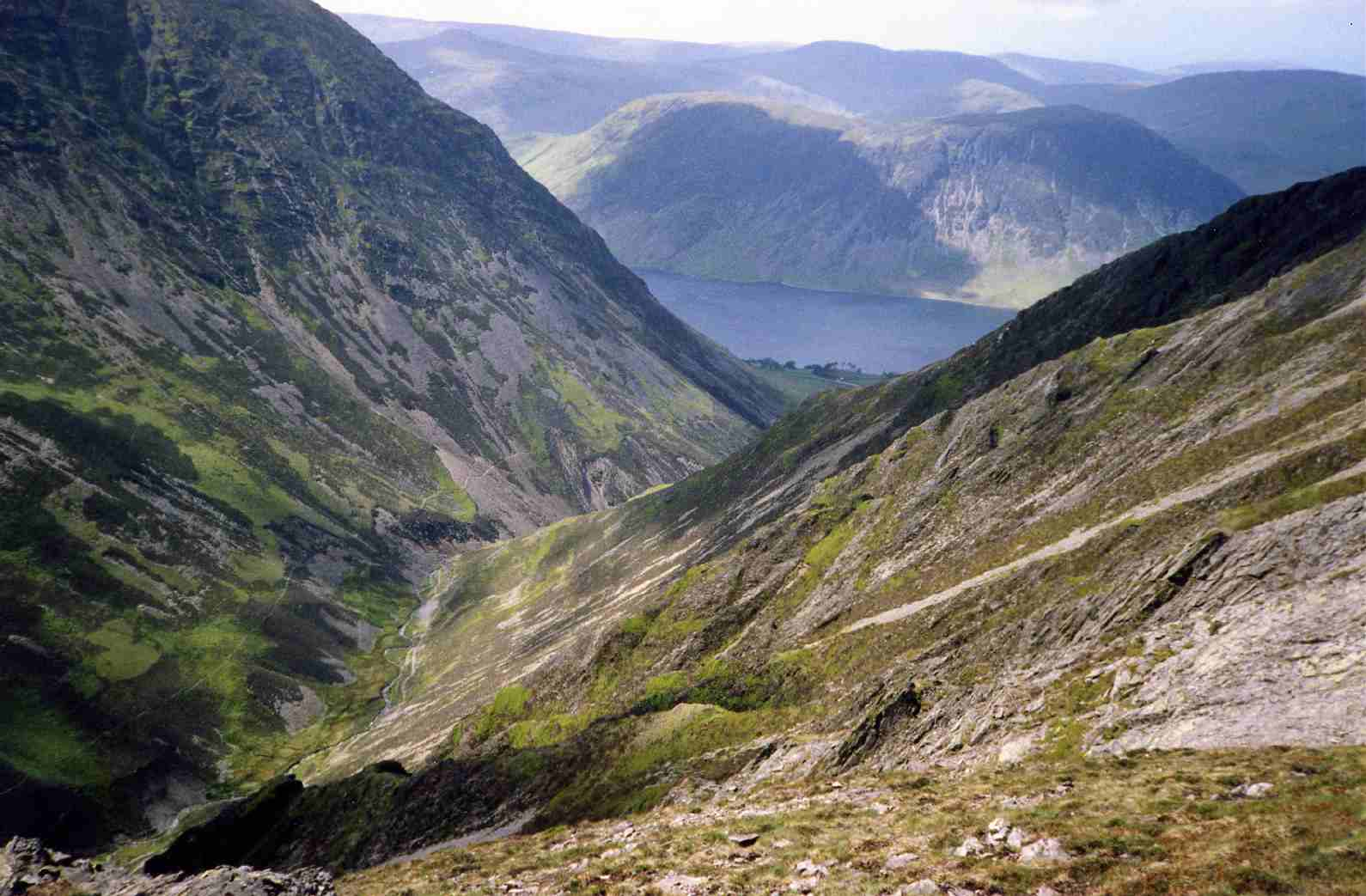 Whiteside (Lake District) Looking down into Gasgale Gill from the ridge between Whiteside and Hopegill Head Personal picture taken by Mick Knapton in August 1988